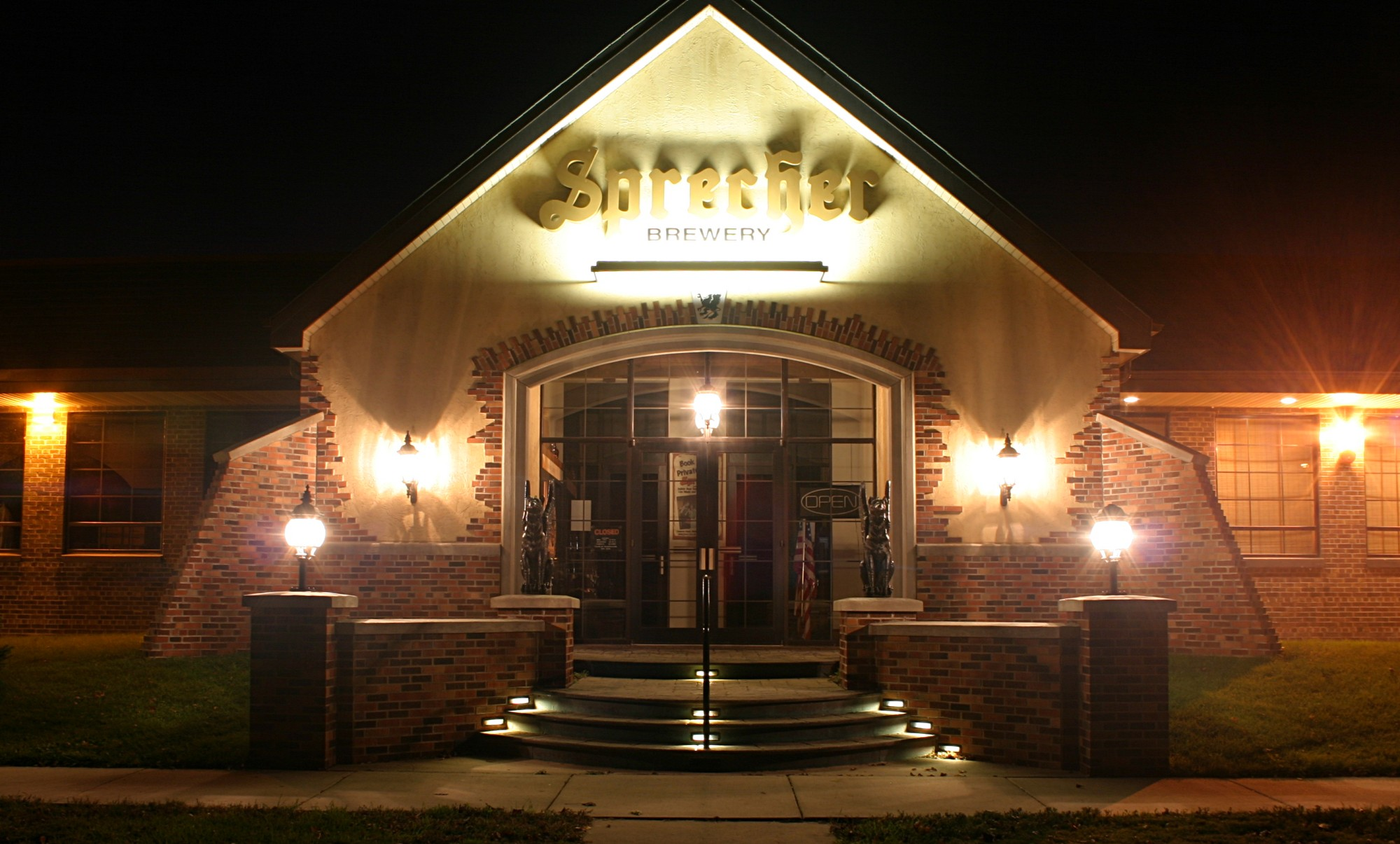 North side of the Sprecher Brewery's gift shop entrance at night in Glendale, Wisconsin